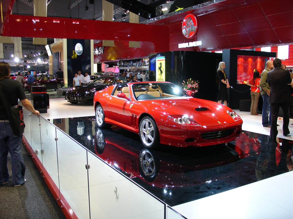 Ferrari 575 Superamerica at the 2006 Melbourne International Motor Show